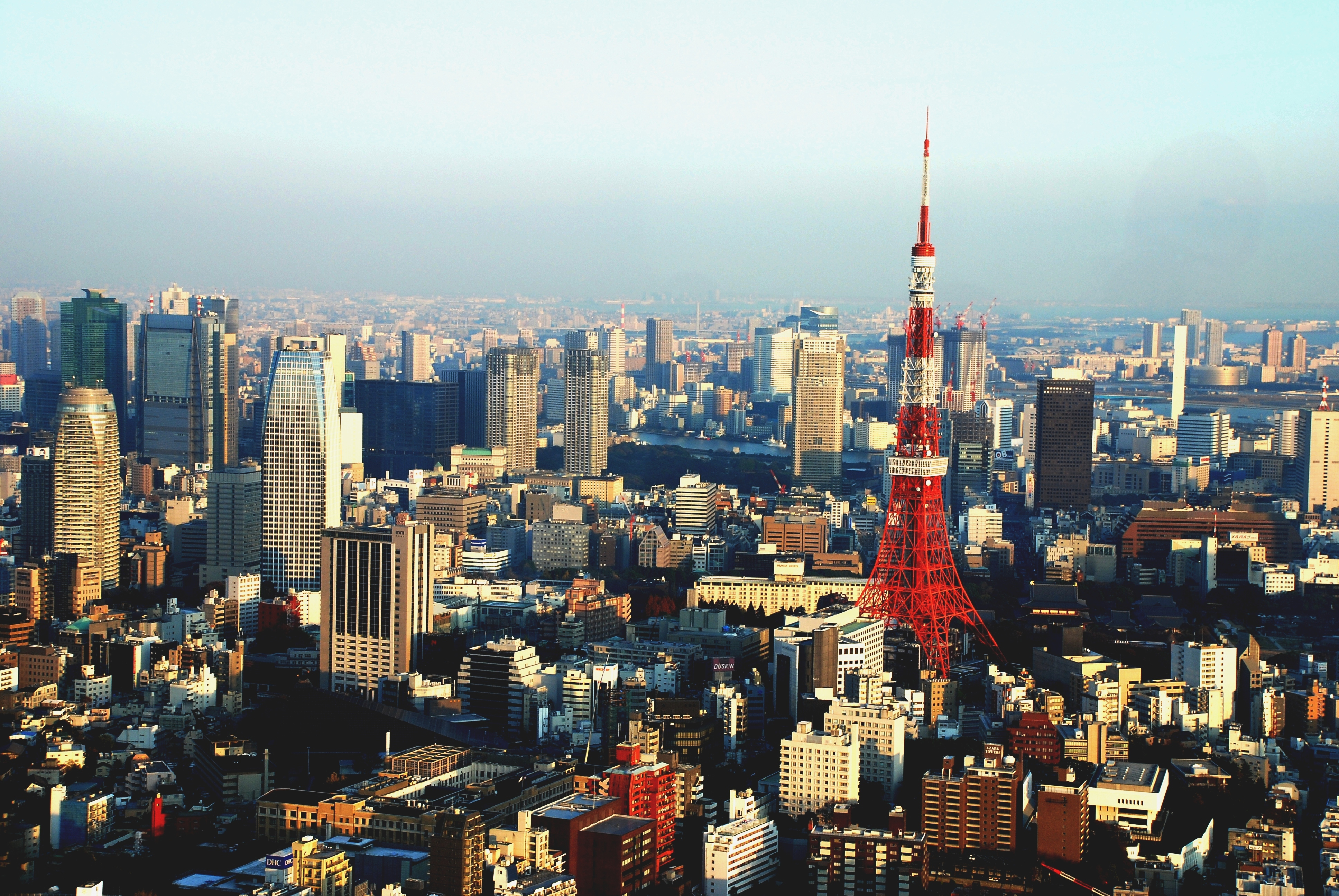 The Tokyo tower as seen from 六本木ヒルズ (Roppongi Hills).